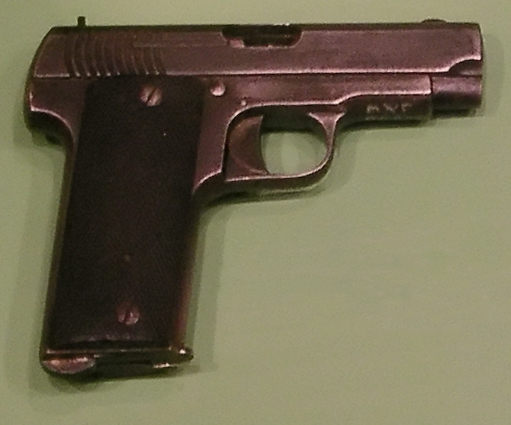 Made during a summer day in Warsaw's Museum of the Polish Army. Museum description is Spanish Ruby-Cebra pistol (they were two pistols, similar ones were made by many manufacturers), but apparently this is proper Ruby pistol